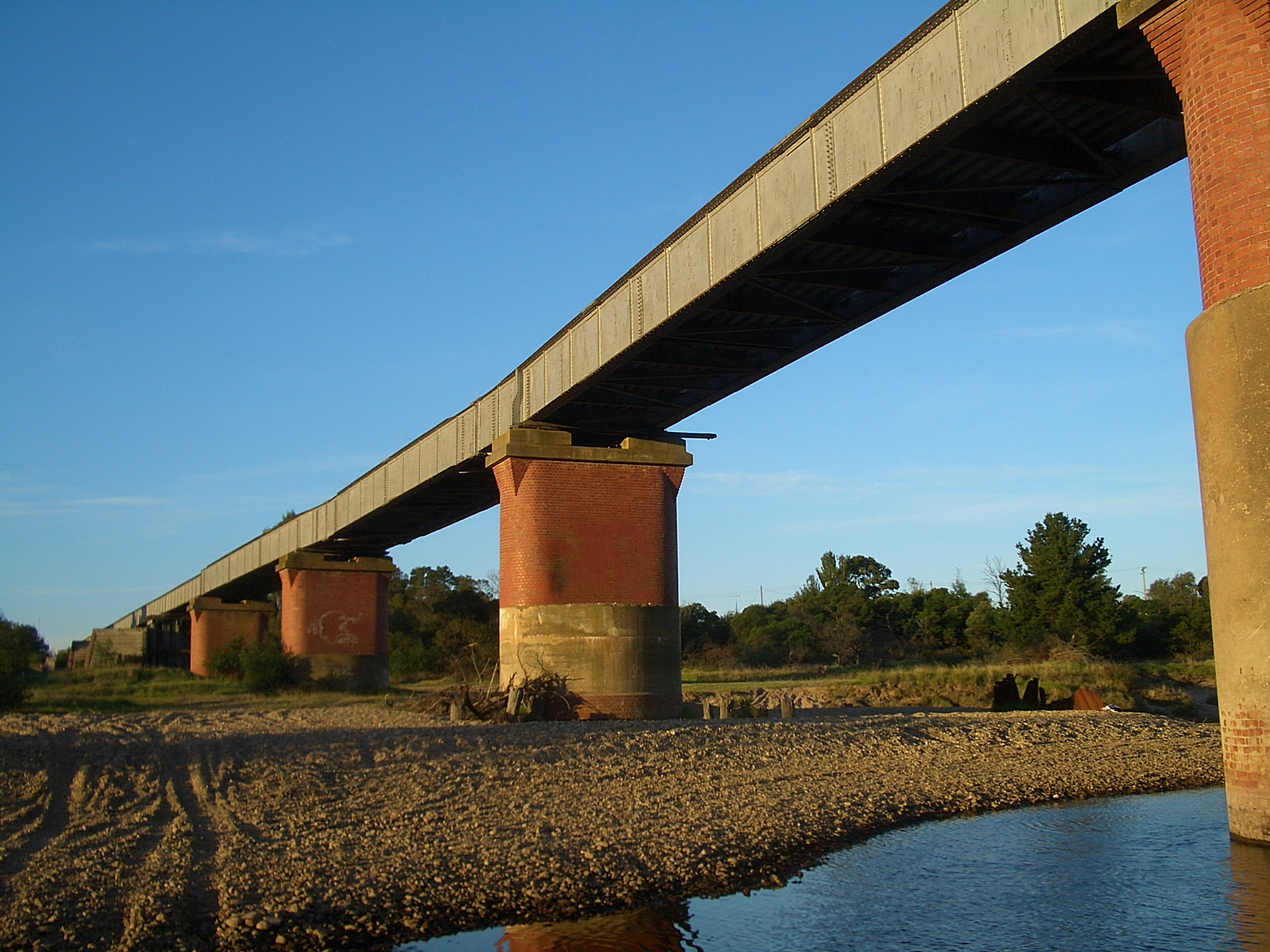 Railway bridge across the Avon River near Stratford, Victoria